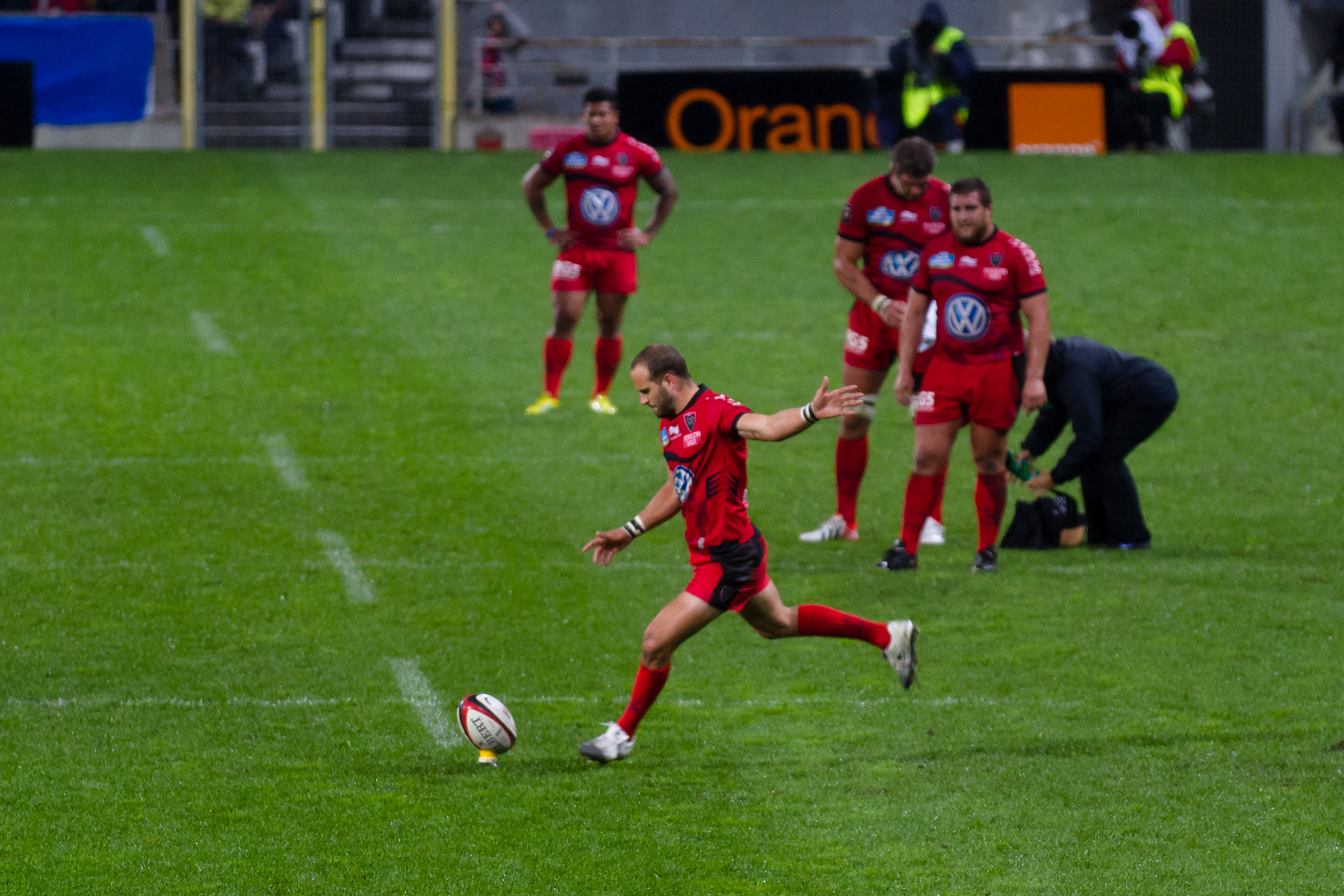 Top 14 - 29 September 2012 - Stadium - Match between: Stade toulousain - RC Toulonnais